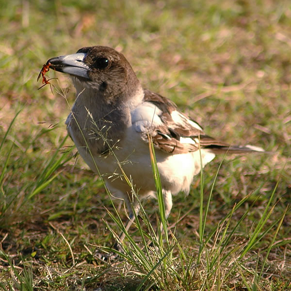 Bird, Pied Butcherbird, Cracticus nigrogularis